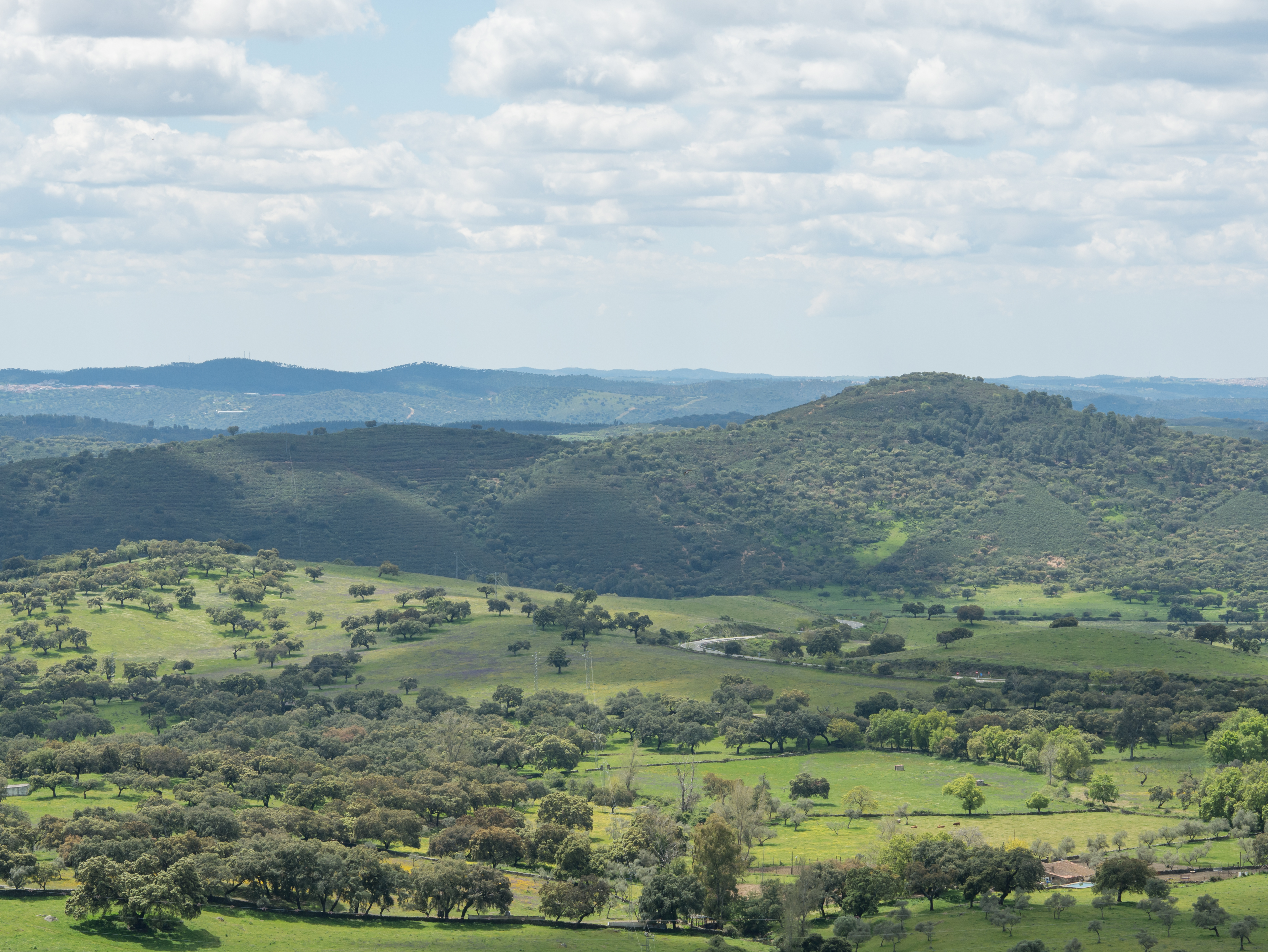 Landscape, view from Aracena castle. Huelva, Andalusia, Spain